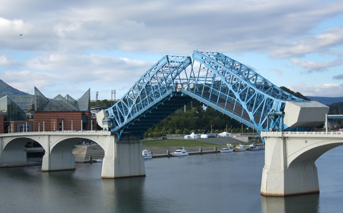 The Market Street Bridge in Chattanooga, Tennessee, with its bascule span opening up for inspection.